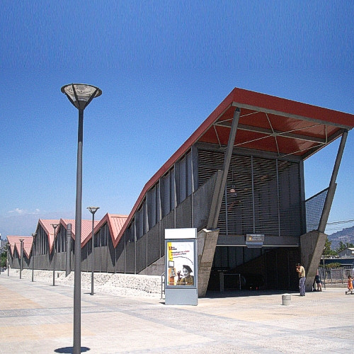 metro